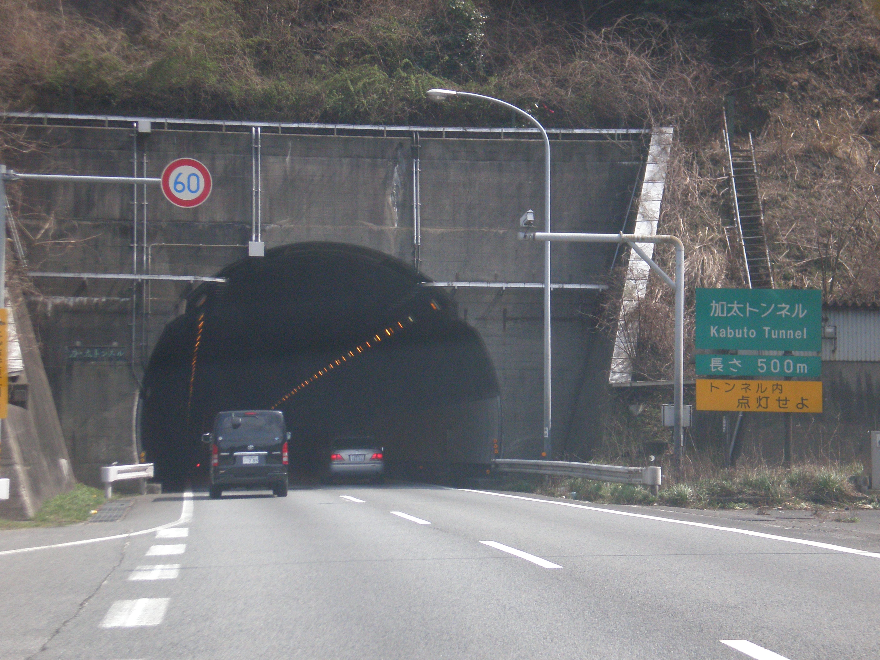 Kabuto tunnel in Meihan Kokudo. I took this image at Tsuge-cho Iga City Mie Pref., Japan.